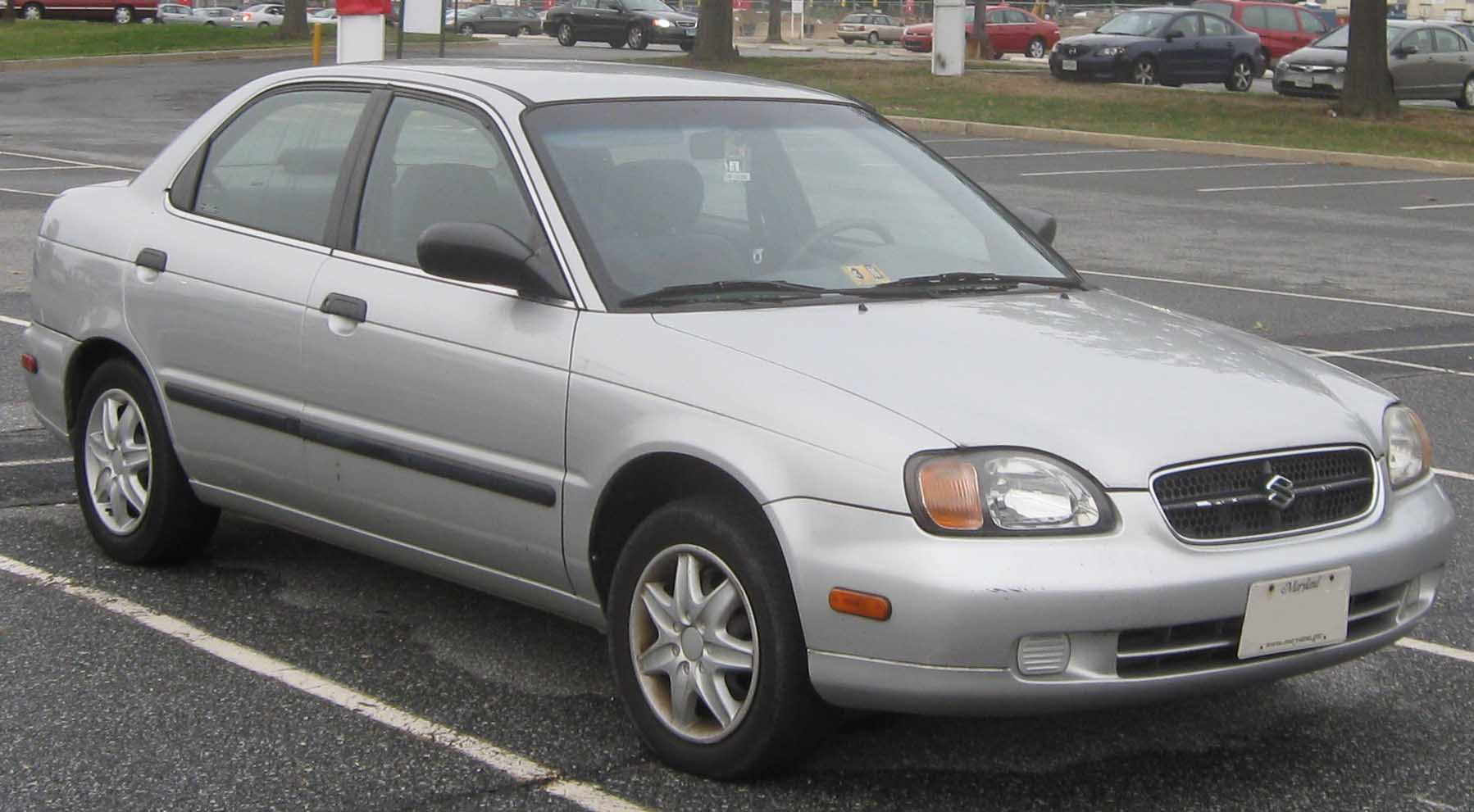 1999-2000 Suzuki Esteem photographed in College Park, Maryland, USA.